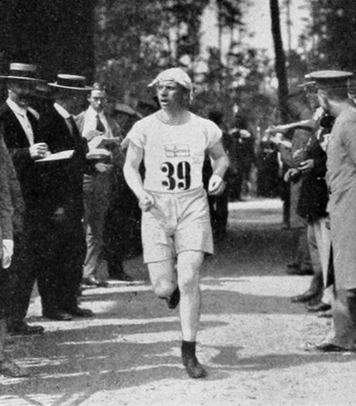 Åke Grönhagen, cross-country race, modern pentathlon at the 1912 Olympics